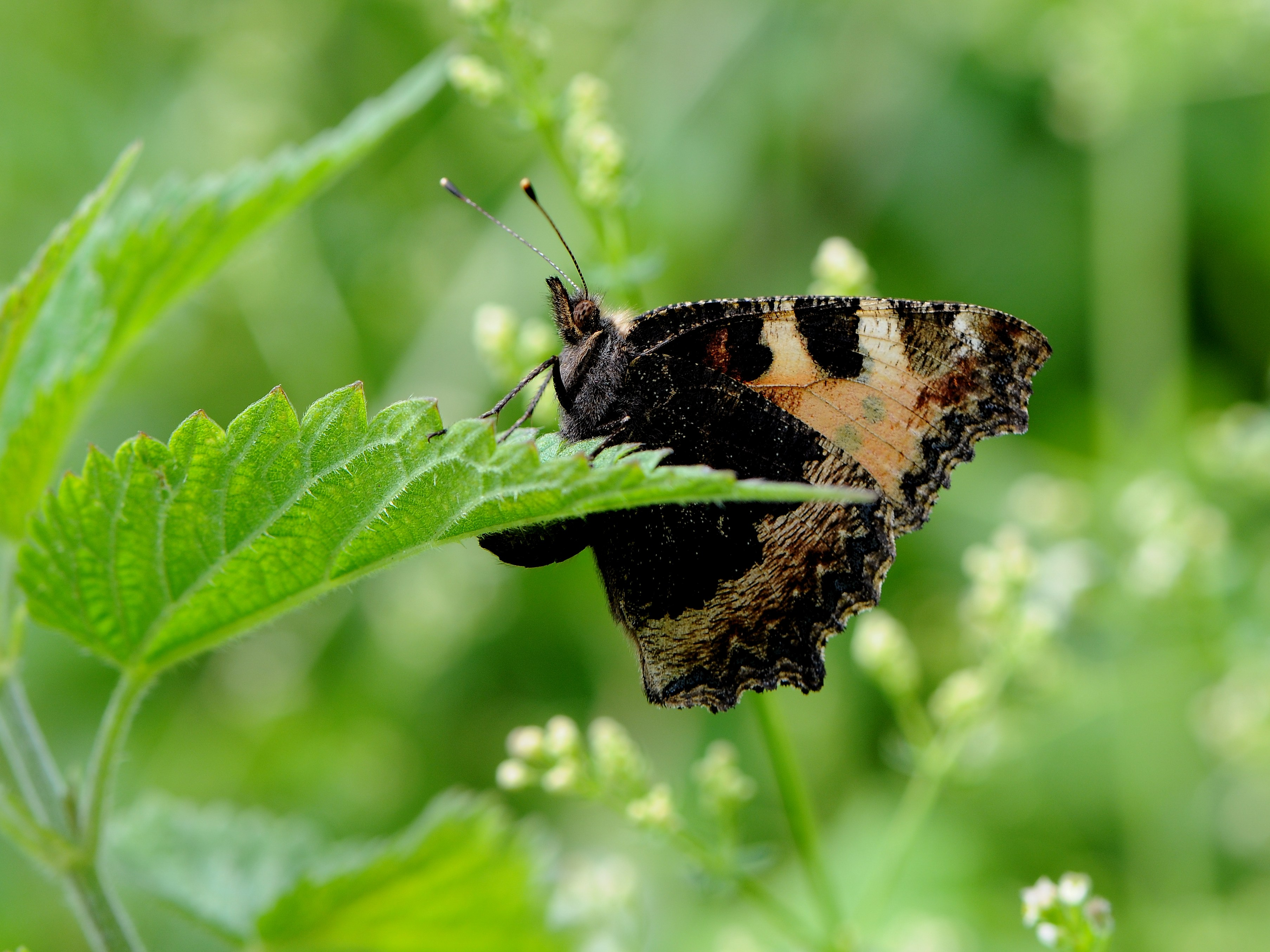 The Small Tortoiseshell (Nymphalis urticae) is a well-known colourful butterfly, found in temperate Europe.